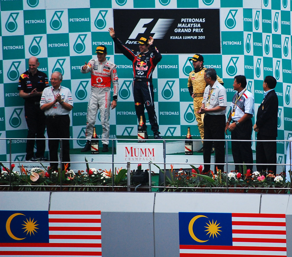 Winners of the 2011 Malaysian Grand Prix.